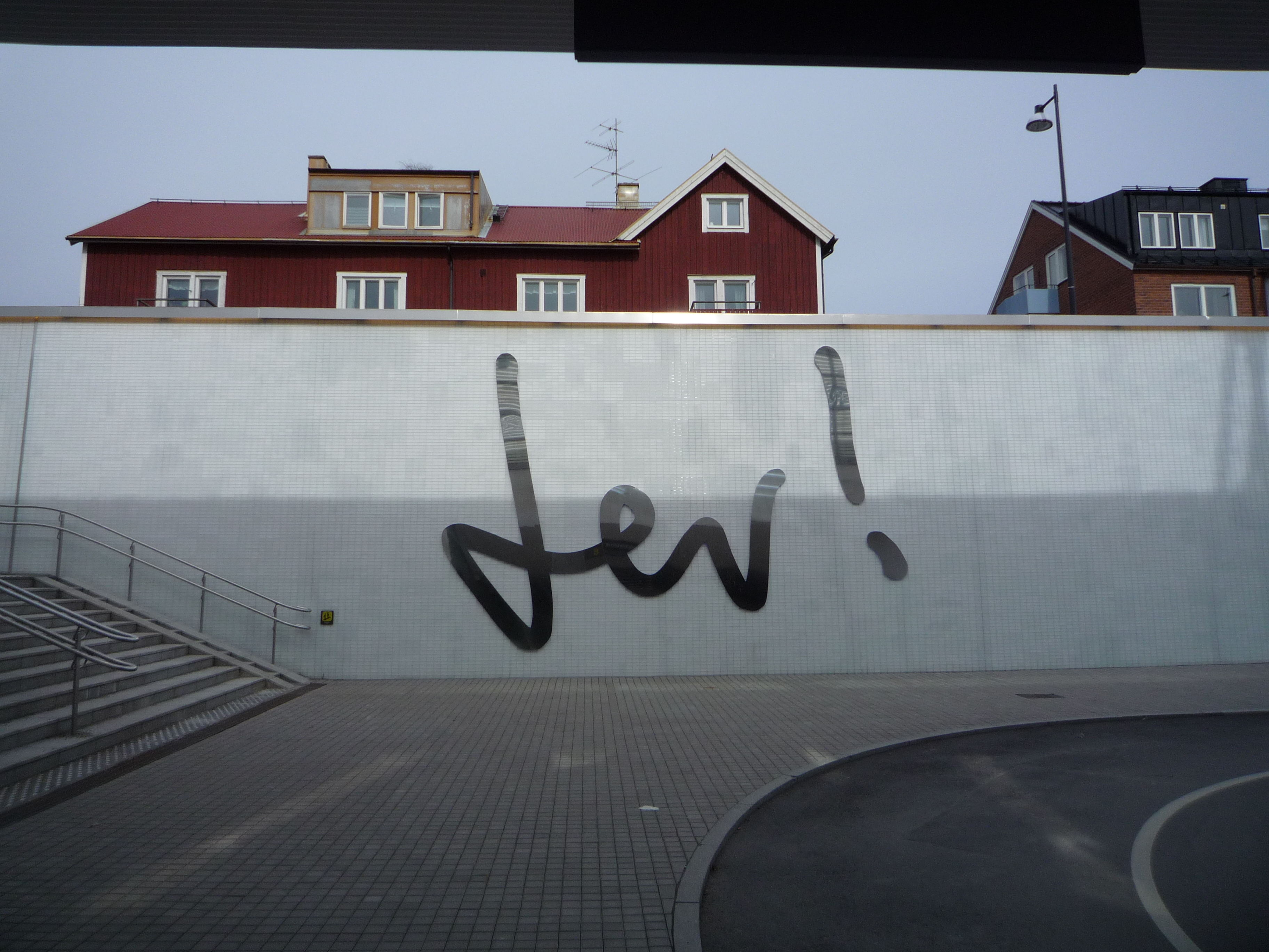 Art work "Lev!" ("Live!") by duo FA+ in the tunnel under Umeå Central Station.